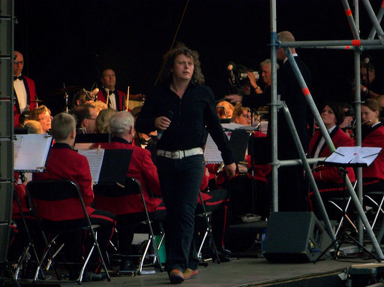 Dutch vocalist Syb van der Ploeg during a concert in Gouda in 2008